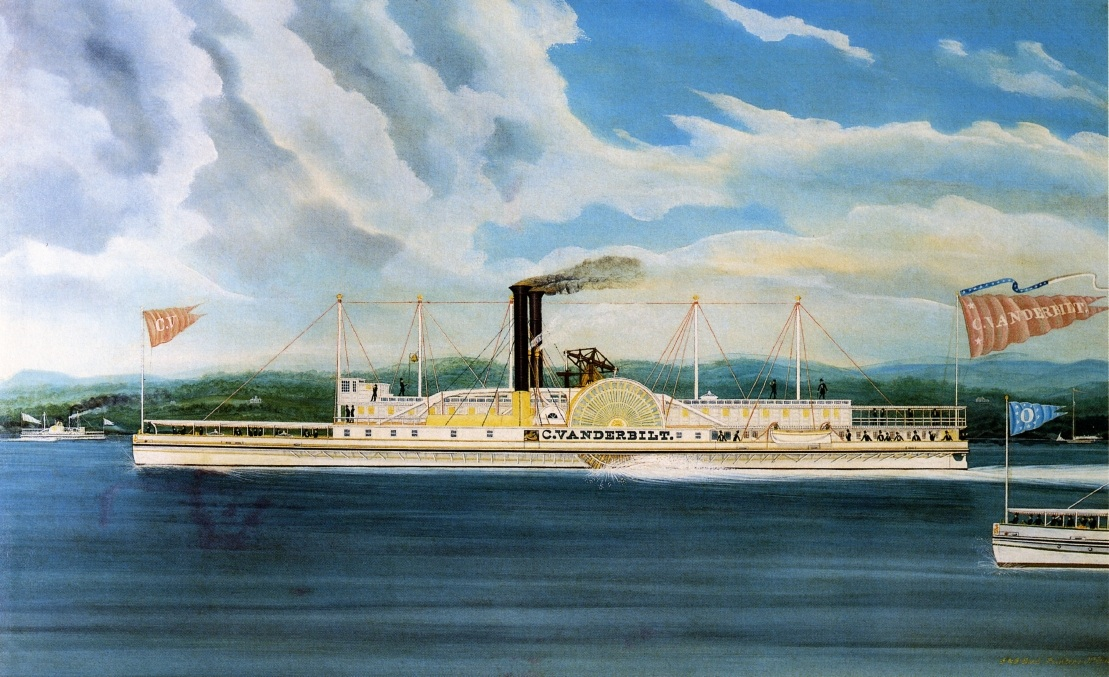 C. Vanderbilt (after Cornelius Vanderbilt), Hudson River steamboat, shown racing the Oregon; the painting was almost certainly commissioned by Cornelius Vanderbilt, because although Oregon won the race, the C. Vanderbilt is shown in the lead, and only the bow of the Oregon is visible on the right.